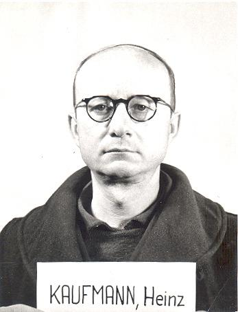 Heinz Kaufmann as a witness during the Nuremberg Trials.